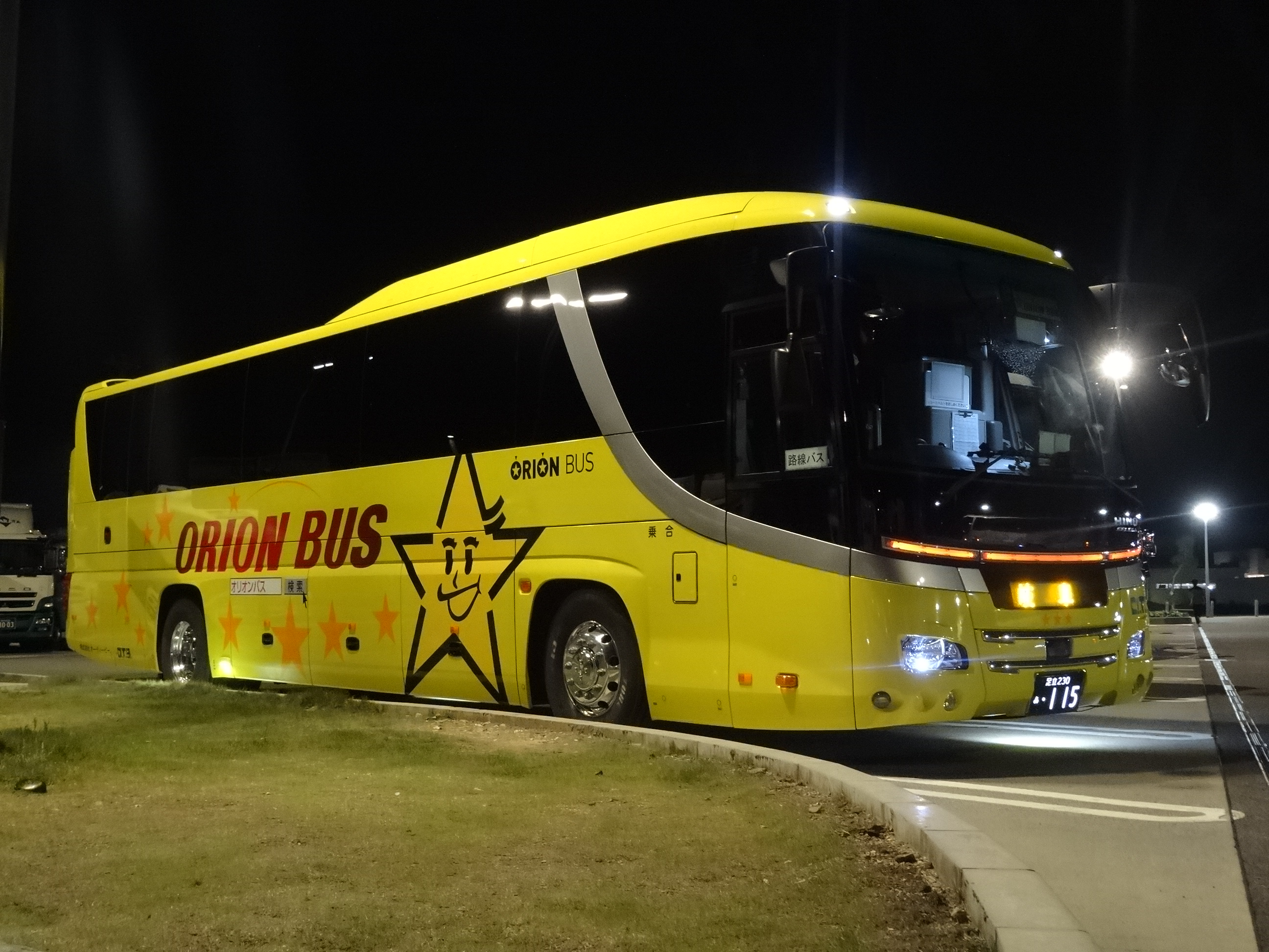 O.T.B. "Orion Bus" 5013 Number:115 Place:Shin-Tomei Expressway, Hamamatsu SA (Hamamatsu)